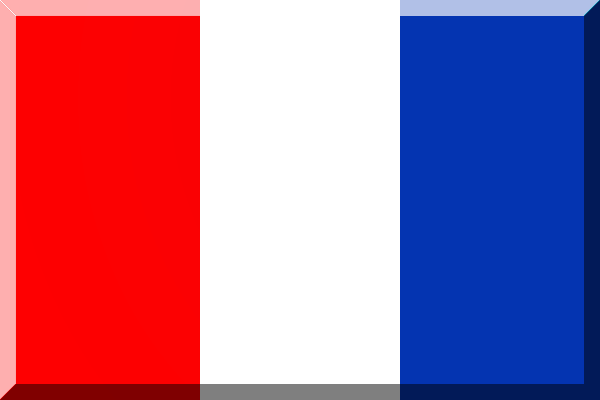 Red, white and blue fantasy football flag.